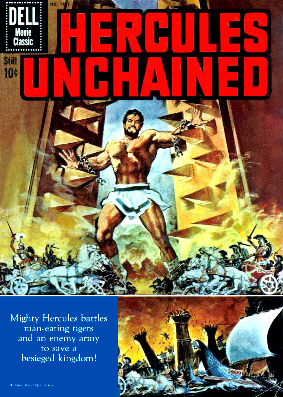 Mighty Hercules battles man-eating tigers and an enemy army to save a besieged kingdom! From the cover of Hercules Unchained (Four Color Comics. no. 1121, Dell, August 1960).